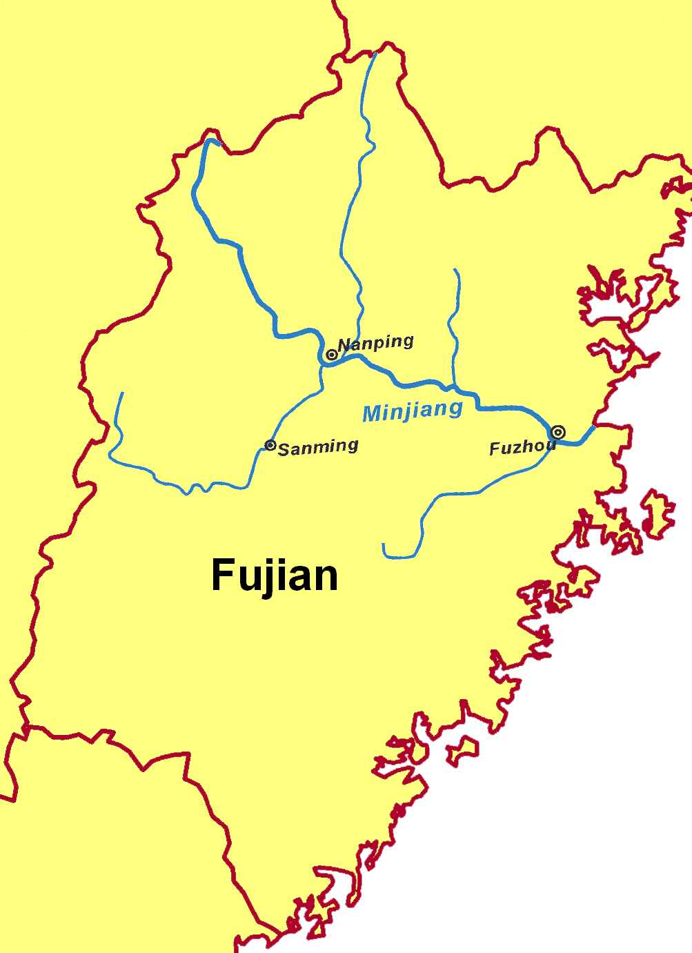 A map of Min River in Fujian.